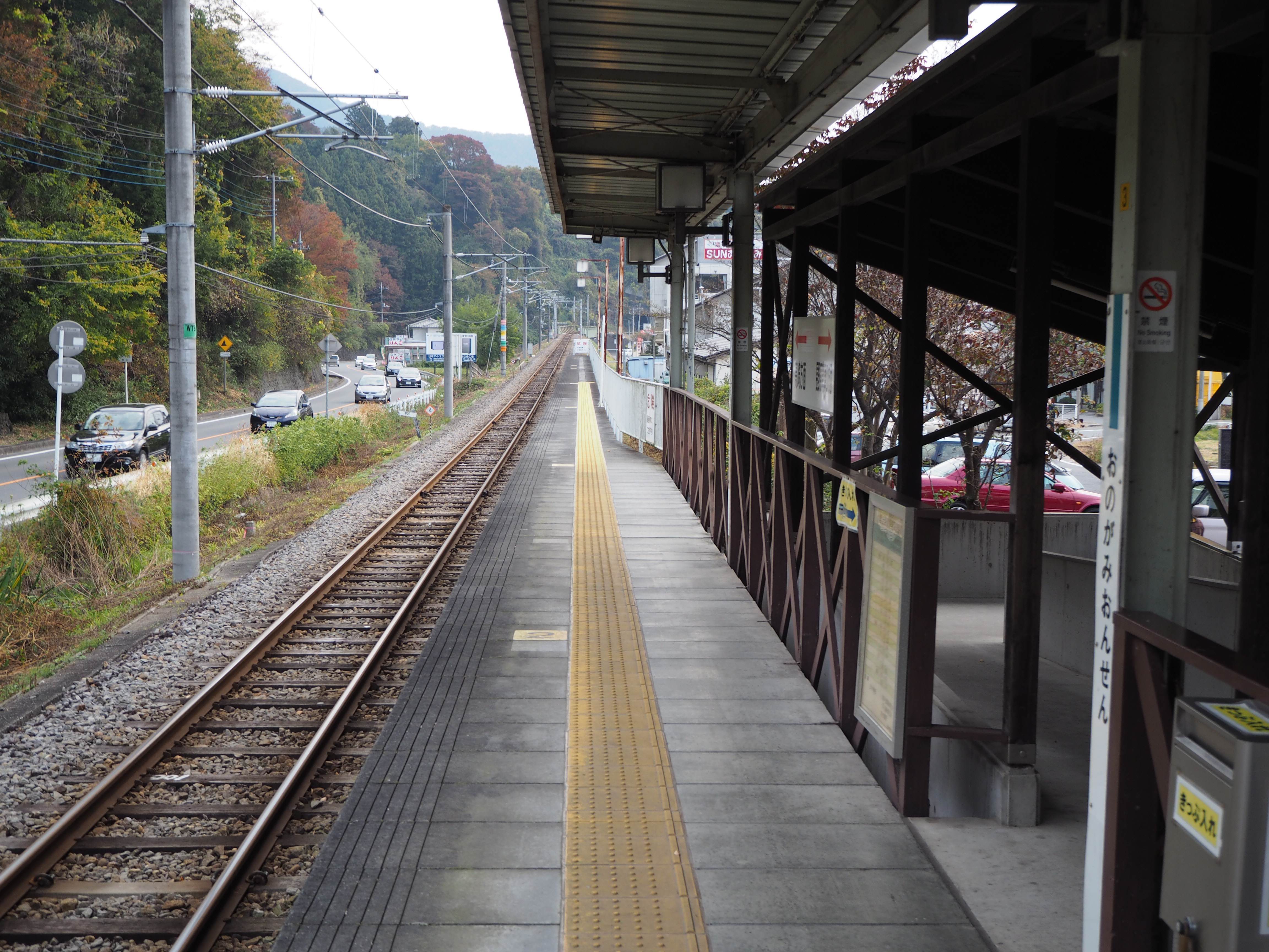 Platform of Onogami-Onsen Station